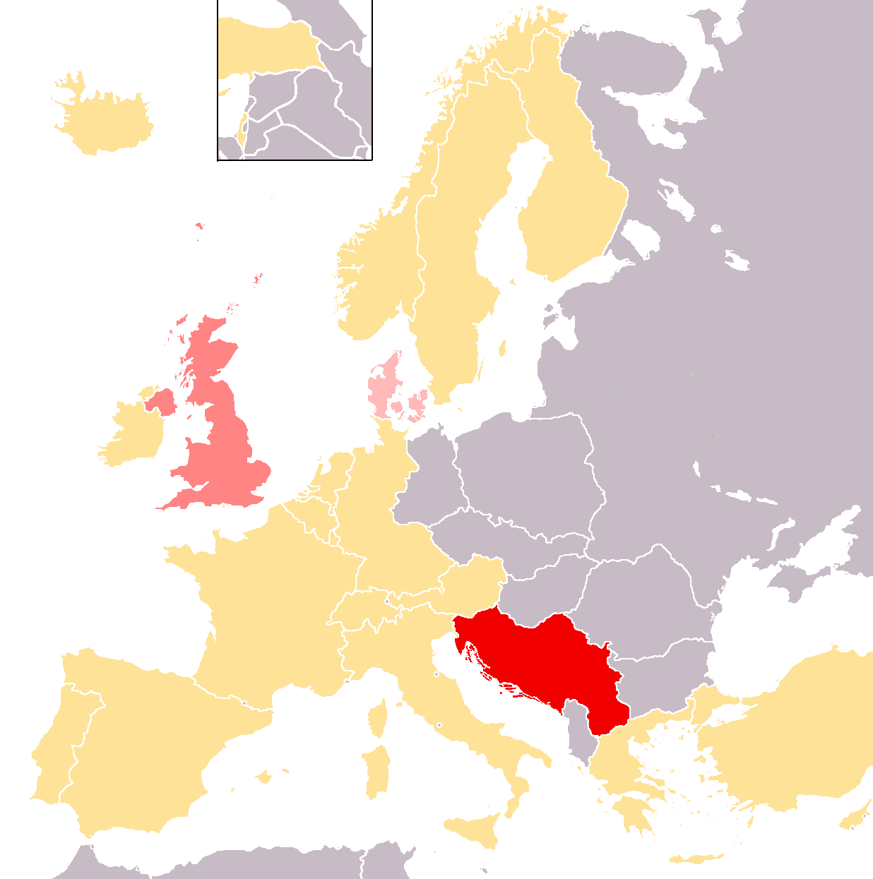 Map of Eurovision 1989